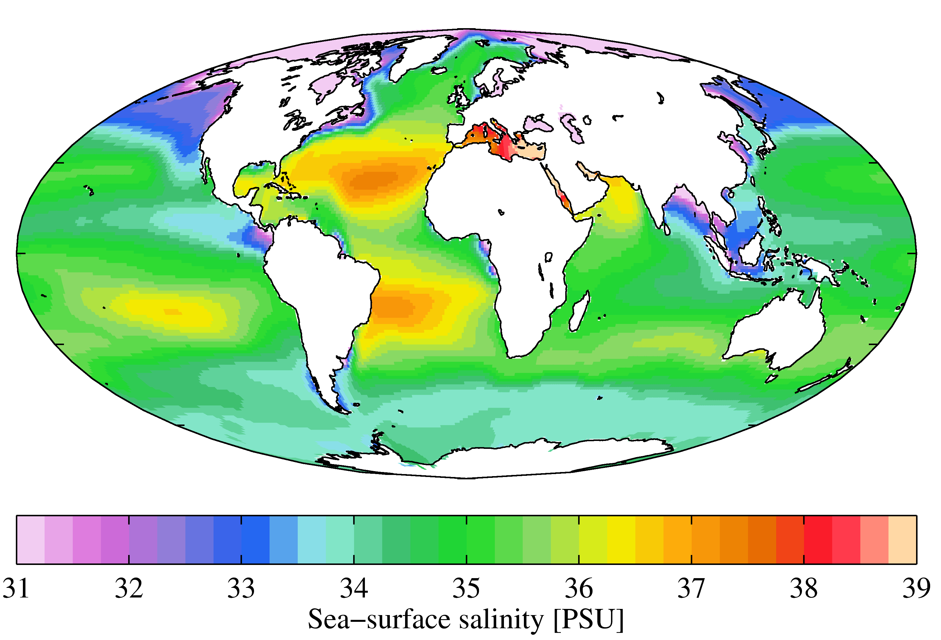 Annual mean sea surface salinity from the World Ocean Atlas 2009. Salinity here is in practical salinity units (PSU). It is plotted here using a Mollweide projection (using MATLAB and the M_Map package).